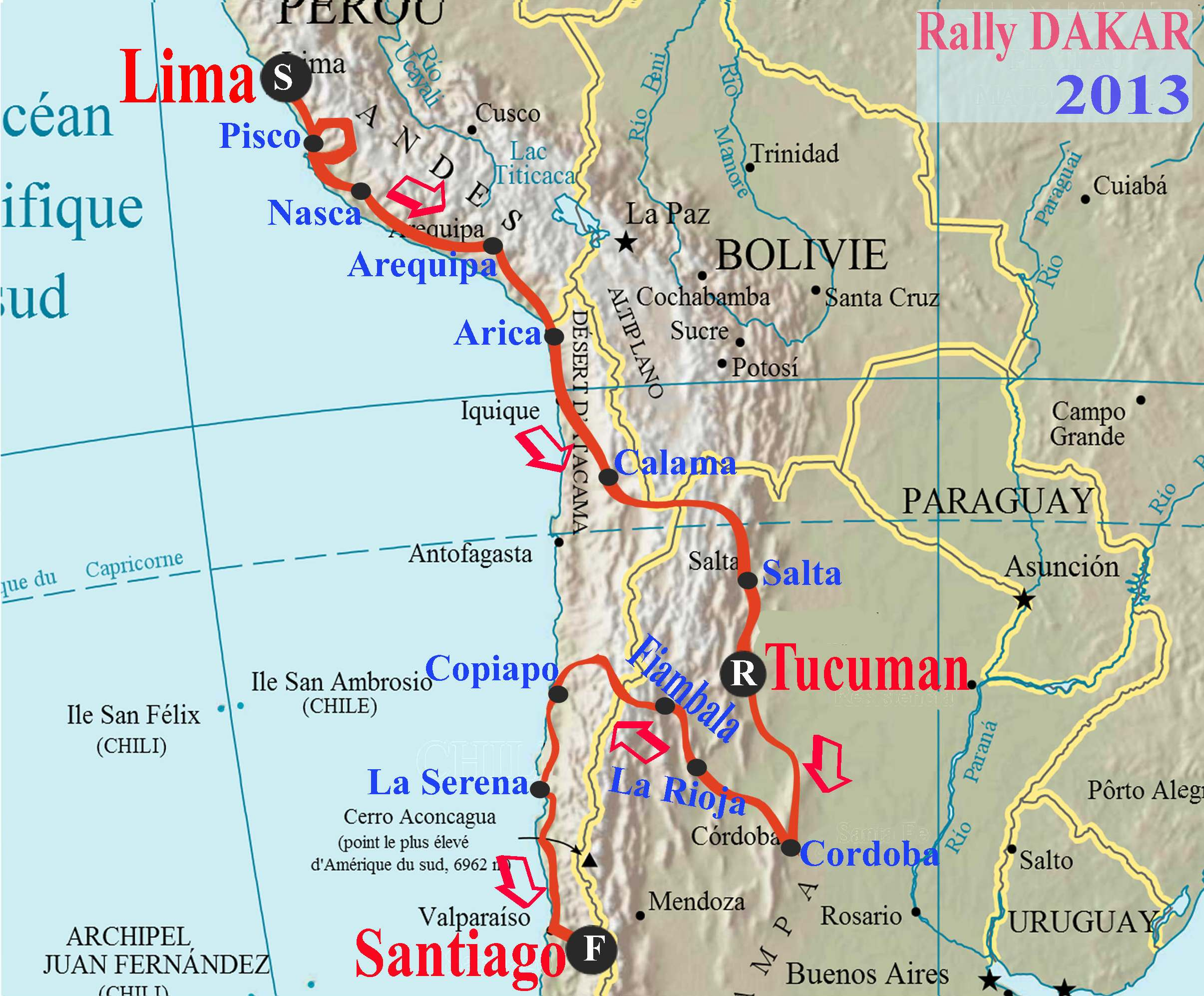 Map of 2013 Dakar Rally track